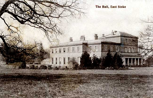 Stoke Hall, East Stoke, Nottinghamshire, seat of the Bromley Baronets.